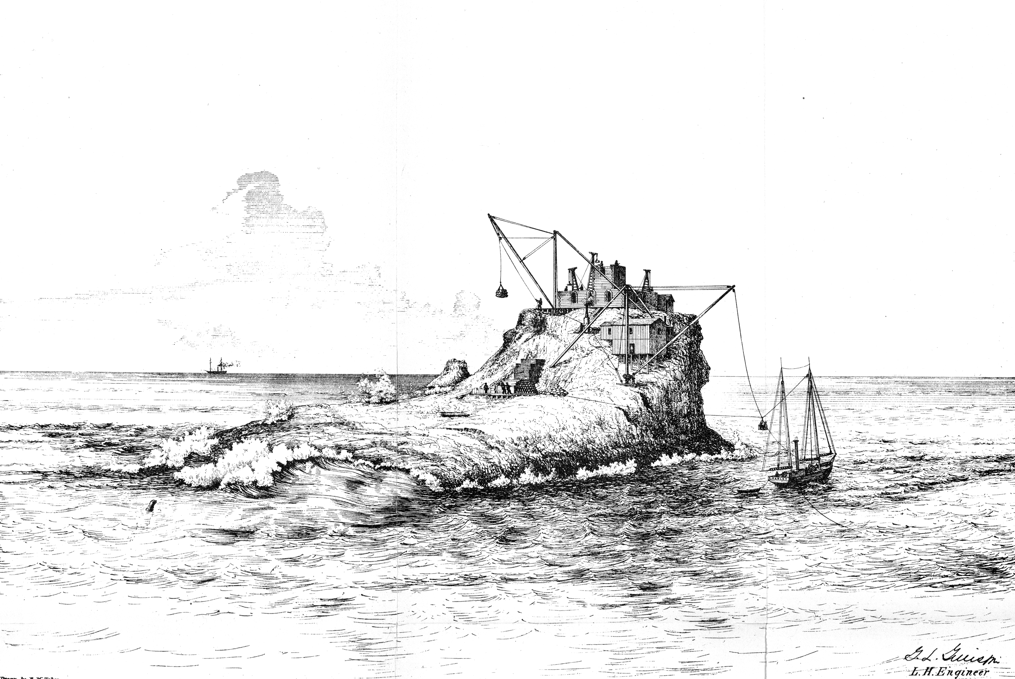 Tillamook Rock Light: First Order L. H. Tillamook Rock, Oregon. Plate 3. Perspective view from the north east, showing the station in process of construction. Sea at lowest stage, and very quiet. Illus. in: Annual Report of the U.S. Light-House Board, 1881, pl. 3.